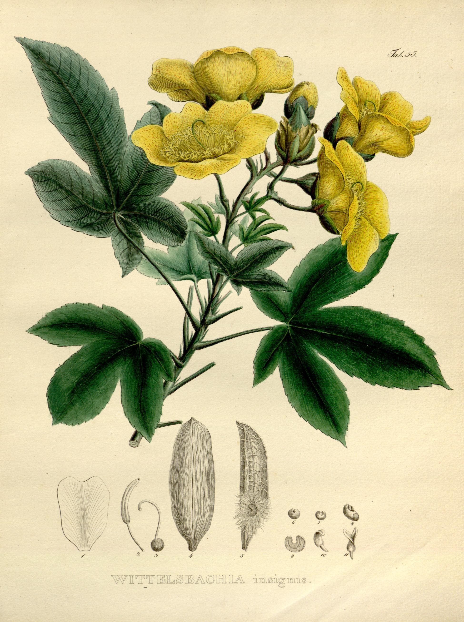 Wittelsbachia insignis = Cochlospermum regium Nova genera et species plantarum. Monachii [Munich] :Impensis Auctoris,1824-1829 [i.e. 1824-32]..